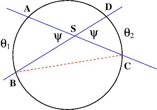 Two secants cross inside a circle